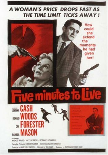 Movie poster of film "Five Minutes to Live"